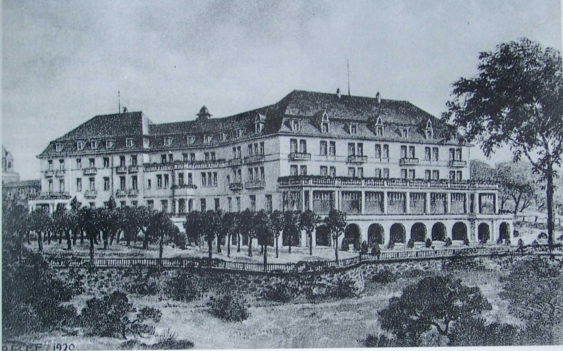 Picture postcard of the Hotel Mülhens on the Petersberg in Königswinter near Bonn in 1920.